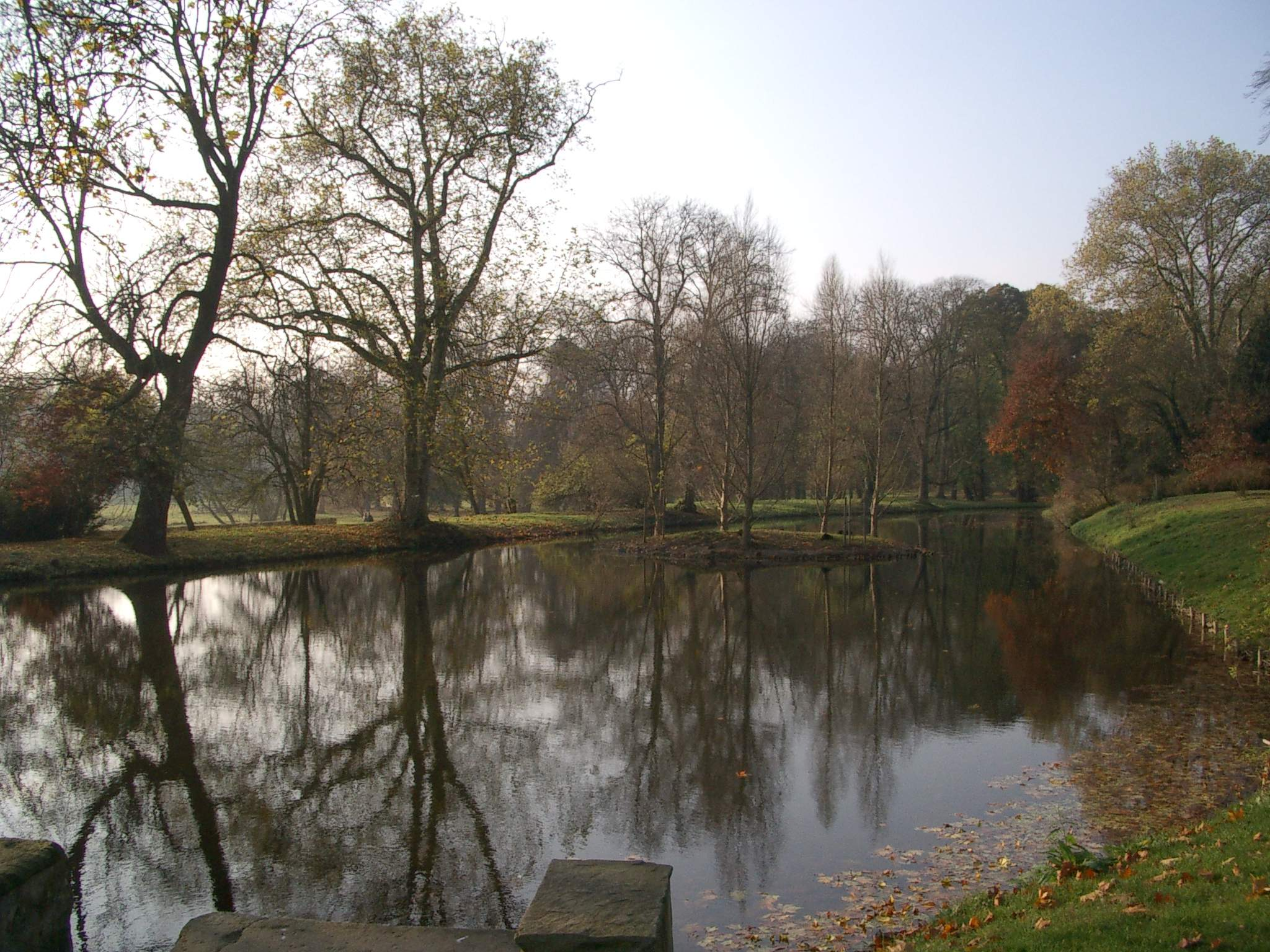 the English park Althaldensleben-Hundisburg, here lake with island (Rousseau-Insel)